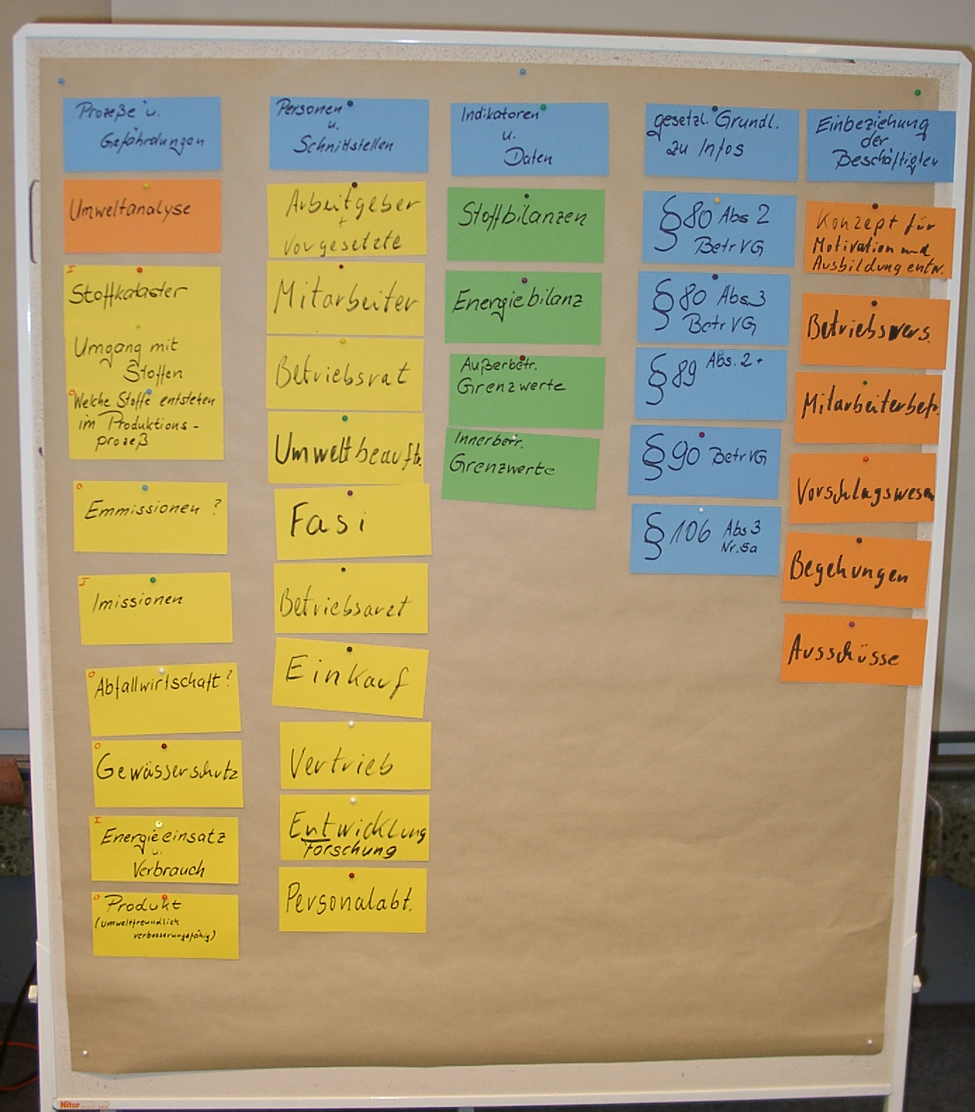 Results to the german works council constitution act, presented by an working-group.